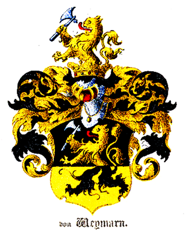 The coat of arms of the Swedish and Russian noble family von Weymarn